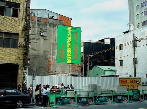 The former site of Tianma Tea House.